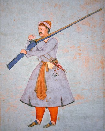 Credit: Officer of the Mughal Army, c.1585 (colour litho), Indian School, (16th century) / Private Collection / Peter Newark Military Pictures / The Bridgeman Art Library PNP 314579 Image number: Officer of the Mughal Army, c.1585 (colour litho) Title: Indian School, (16th century) Primary creator: Indian Nationality: Private Collection Location: Peter Newark Military Pictures Credit: colour lithograph Medium: 16th (C16th) Date: Vertical